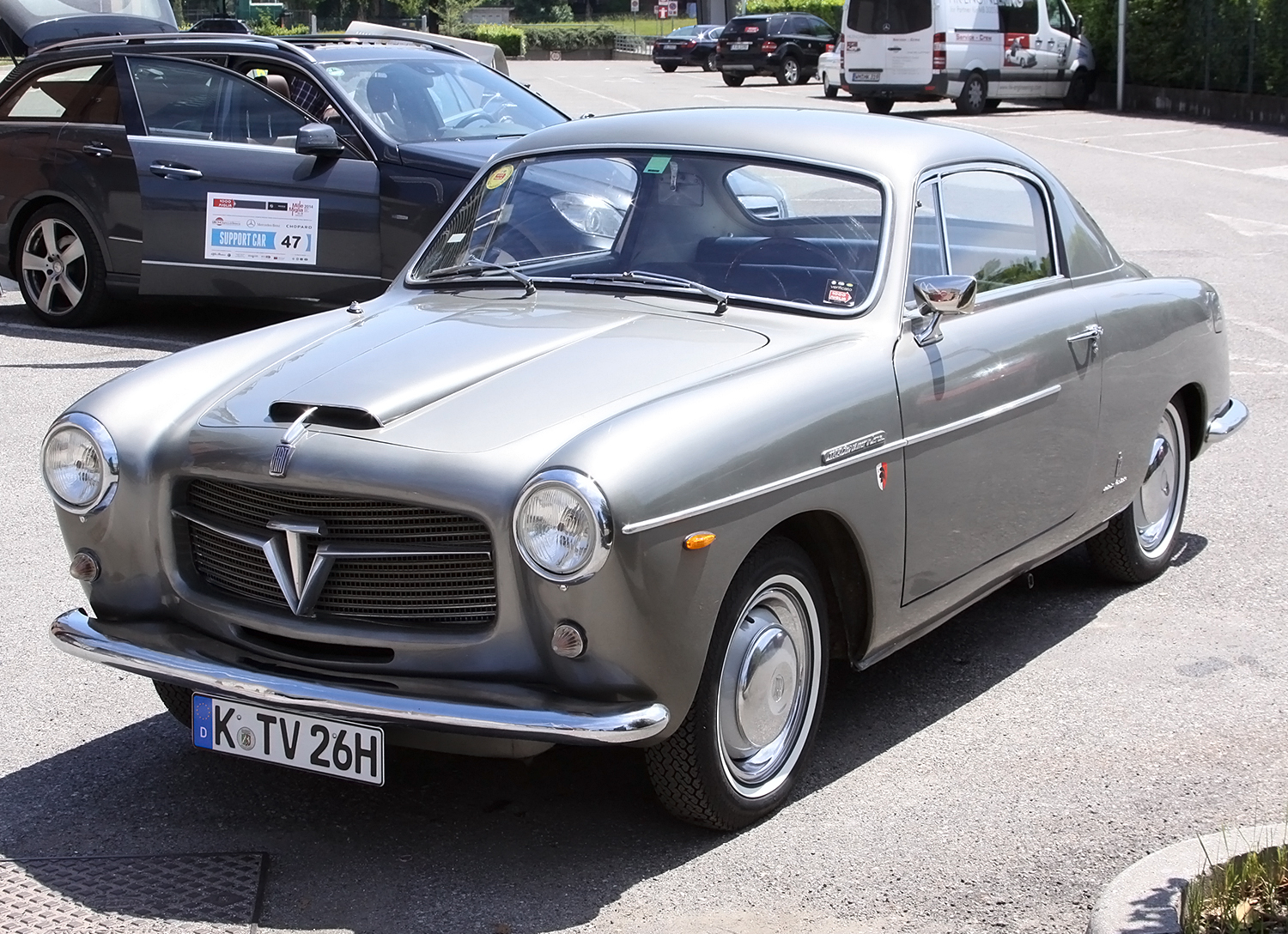 Fiat 1100 TV Coupe Pininfarina 1954